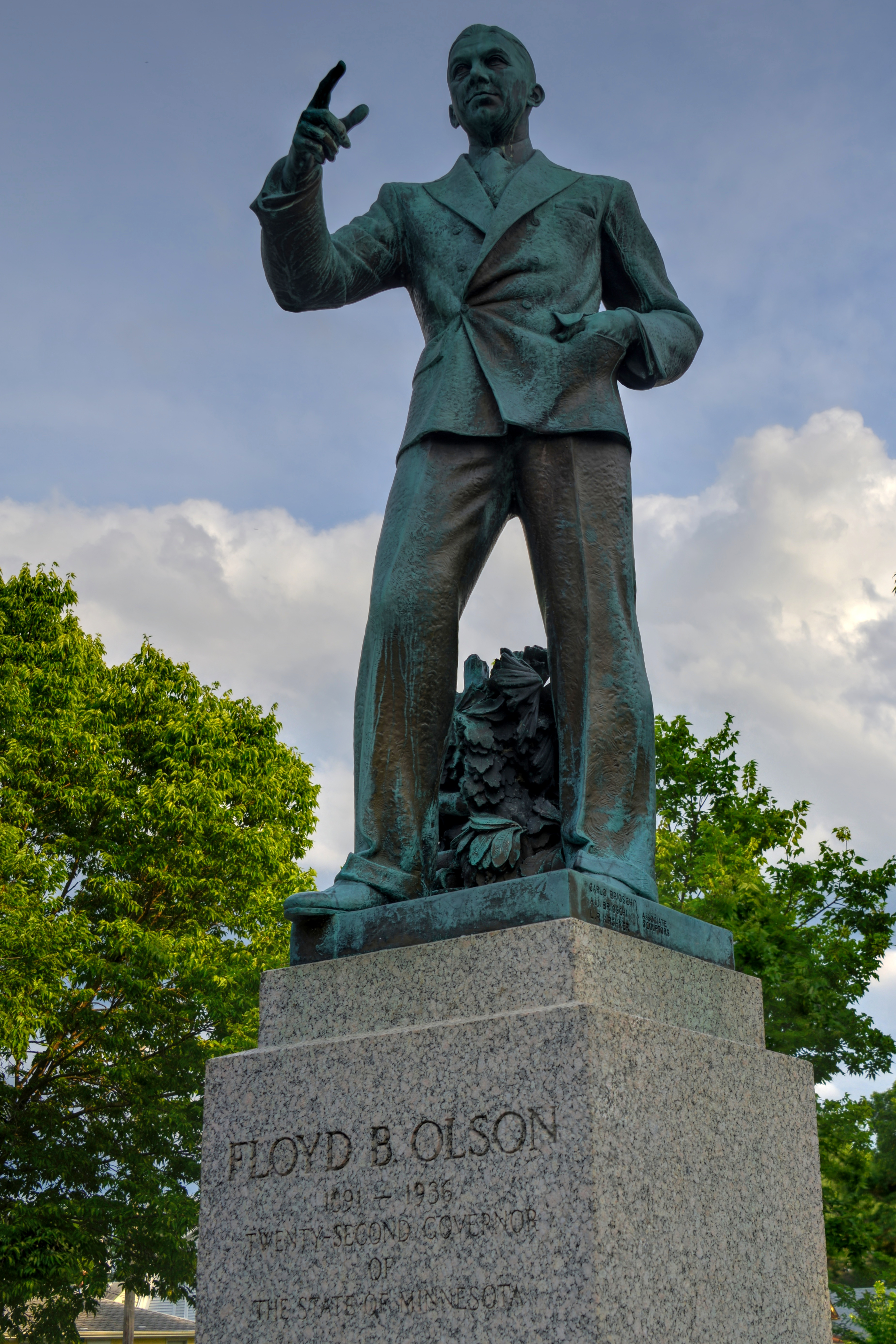 A statue of former Farmer-Labor governor of Minnesota, Floyd B. Olson, at Penn Avenue and the Olson Memorial Highway in north Minneapolis.